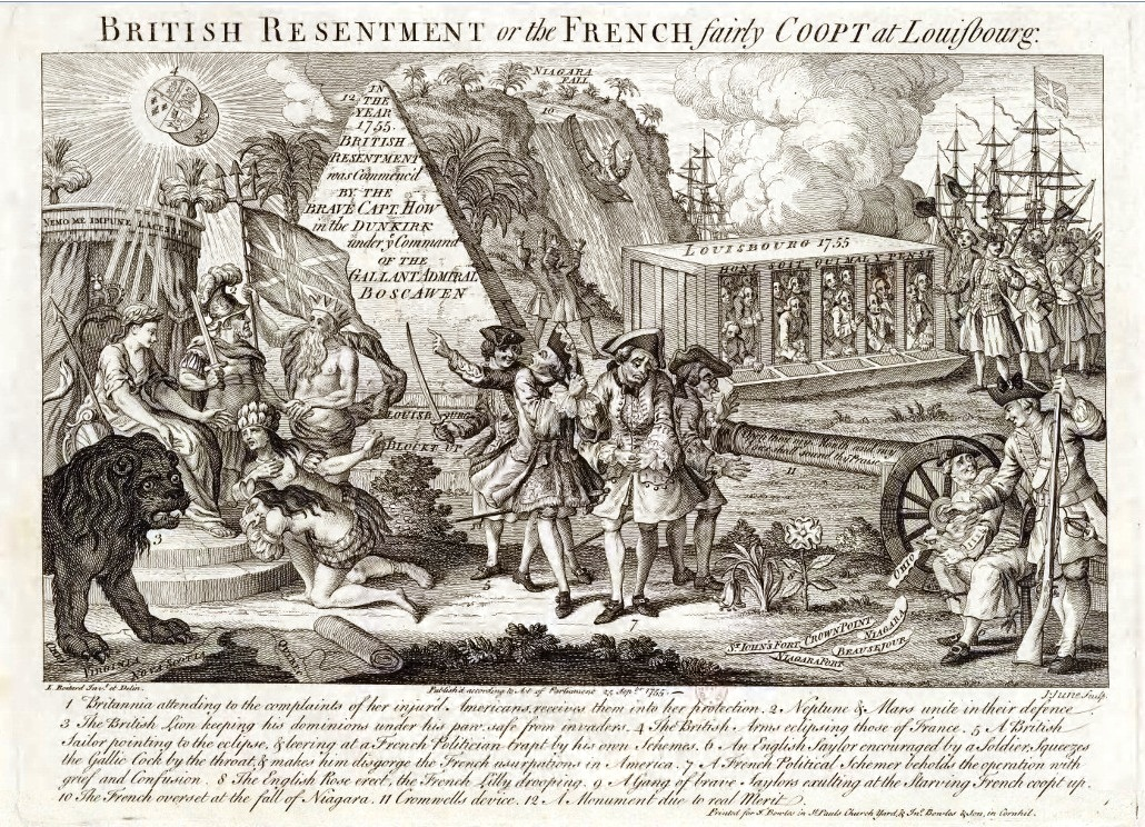 English propaganda against Louisbourg and French Canada in 1755 : " British Resentment or the French fairly Coopt at Louisbourg ". Printed for T. Bowles in S.t Pauls Church yard and In.o Bowles and son, in Cornhil.